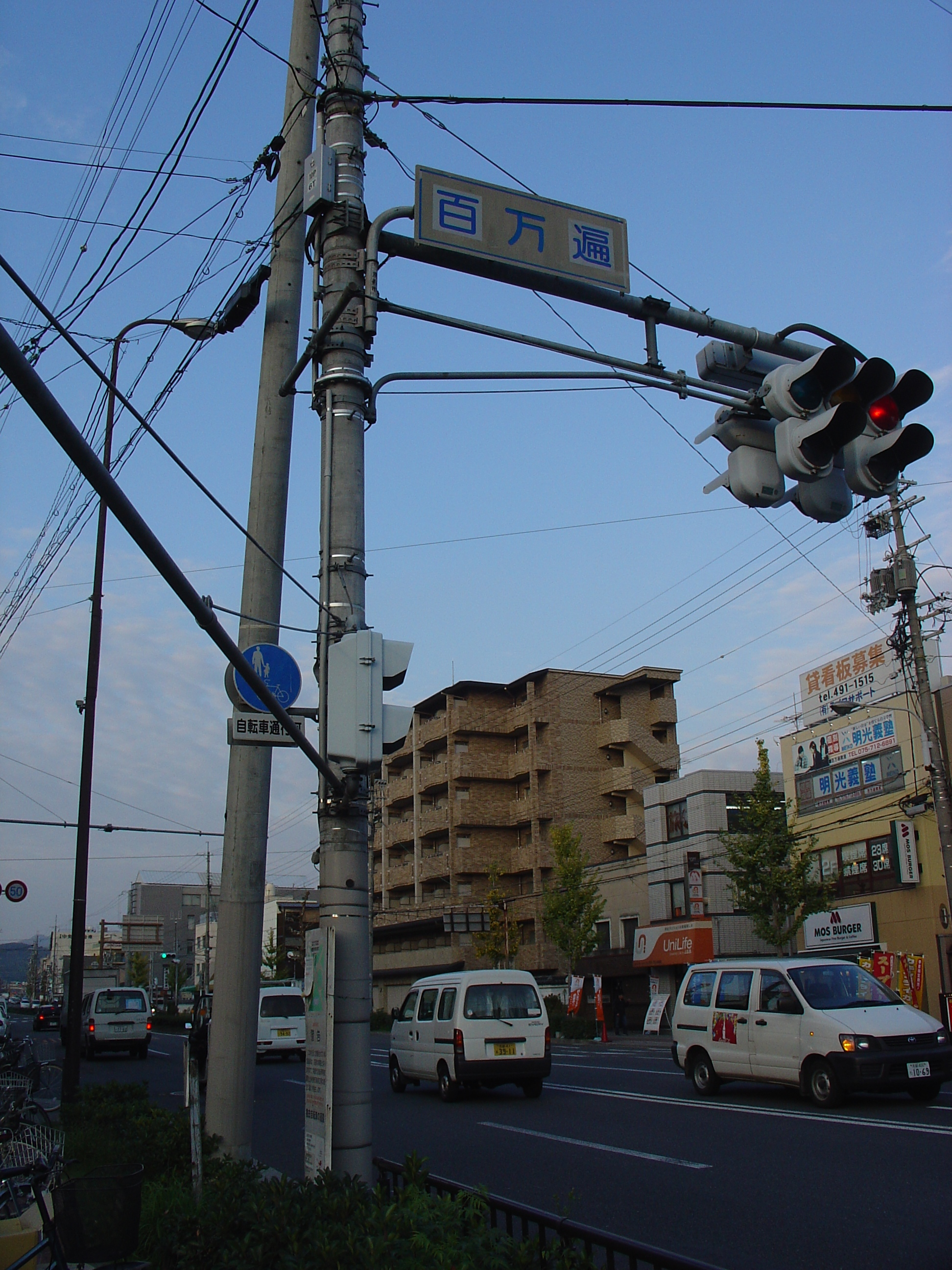 百万遍交差点標識, the sign of Hyakumanben Crossing